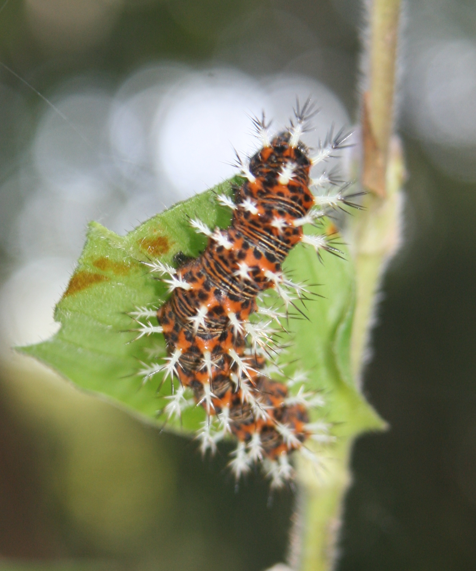 Caterpillar of Kaniska canace eating leaf of Smilax china in Aichi prefecture, Japan.